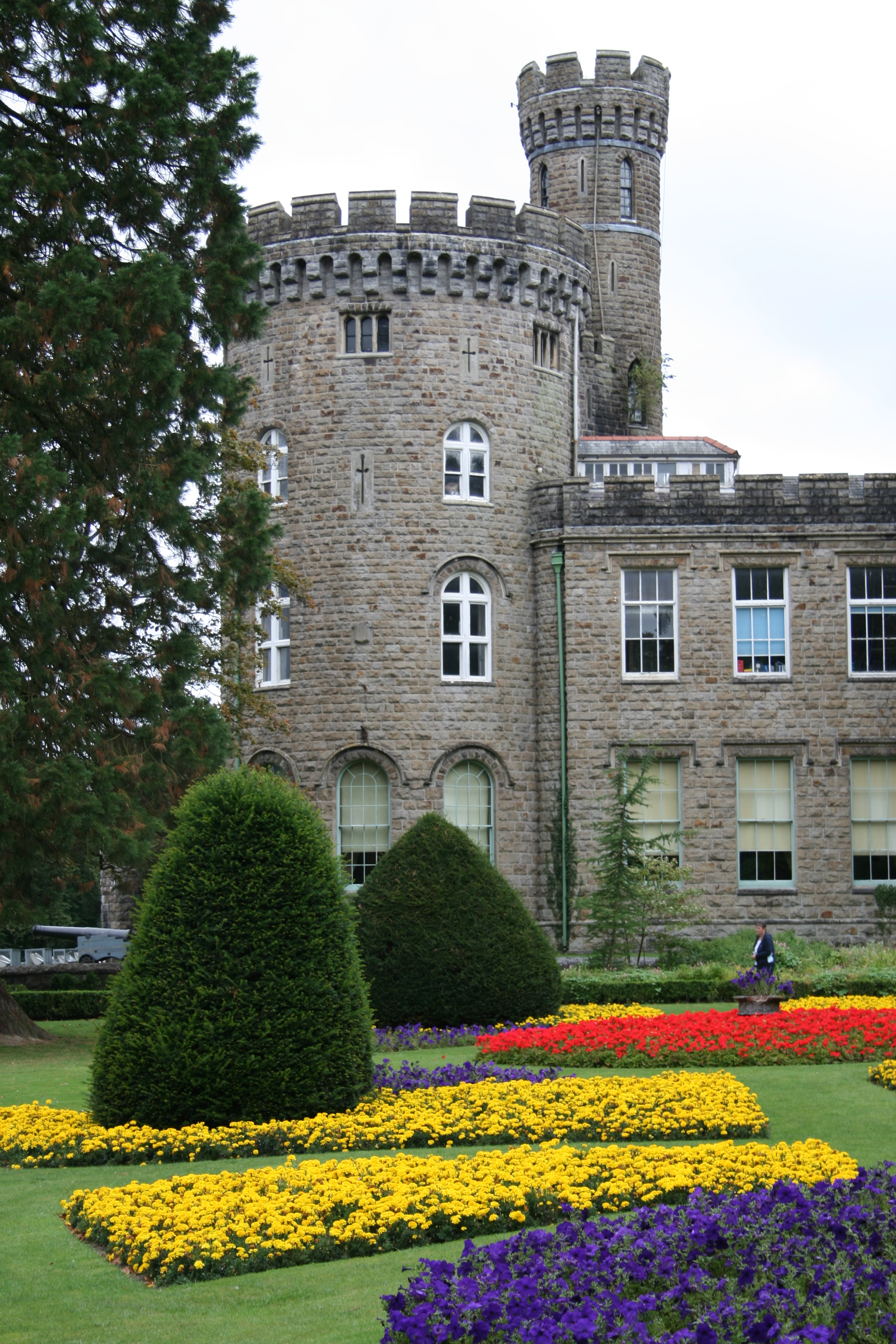 Cyfarthfa Castle in the Summer